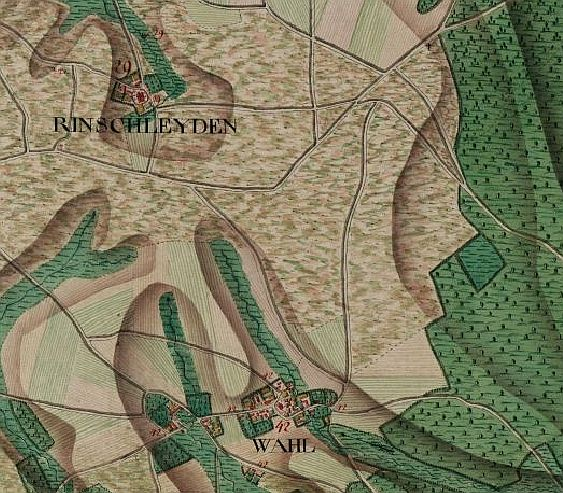 Sector of Wahl, Luxembourg, on the map of Ferraris.